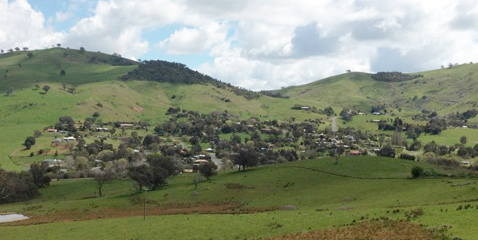 Bethanga August 2012